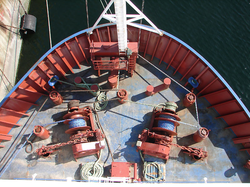 The forecastle deck on the heavy-lift ship La Paimpolaise, with various mooring gear